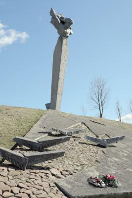 Monument to Nikolai Gastello's crew by Molodechno